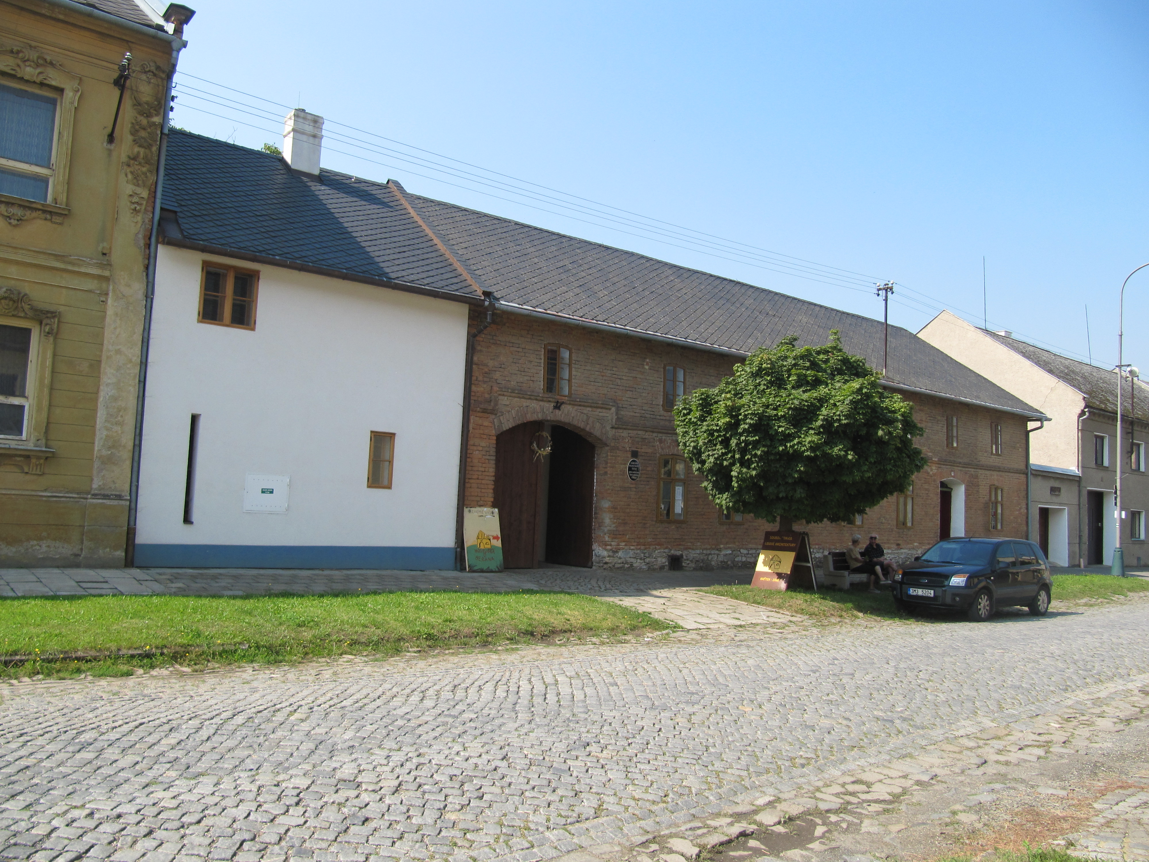 Příkazy in Olomouc District, Czech Republic. Rural homestead No. 54, outdoor museum of Haná.